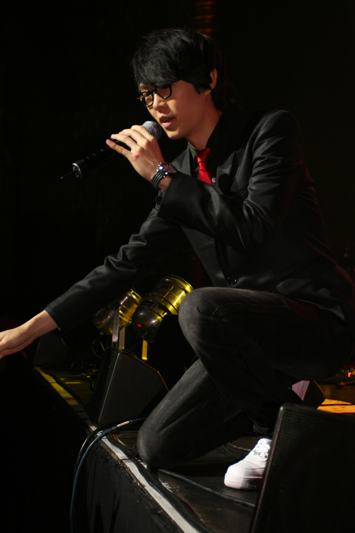 We high fived in the end Don't worry...I didn't stop washing my hands